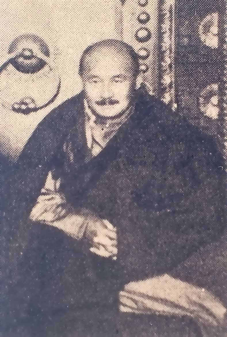 Lama Lubsan Sharab Tepkin, Šajin Lama of the Kalmyks (1926-1931)